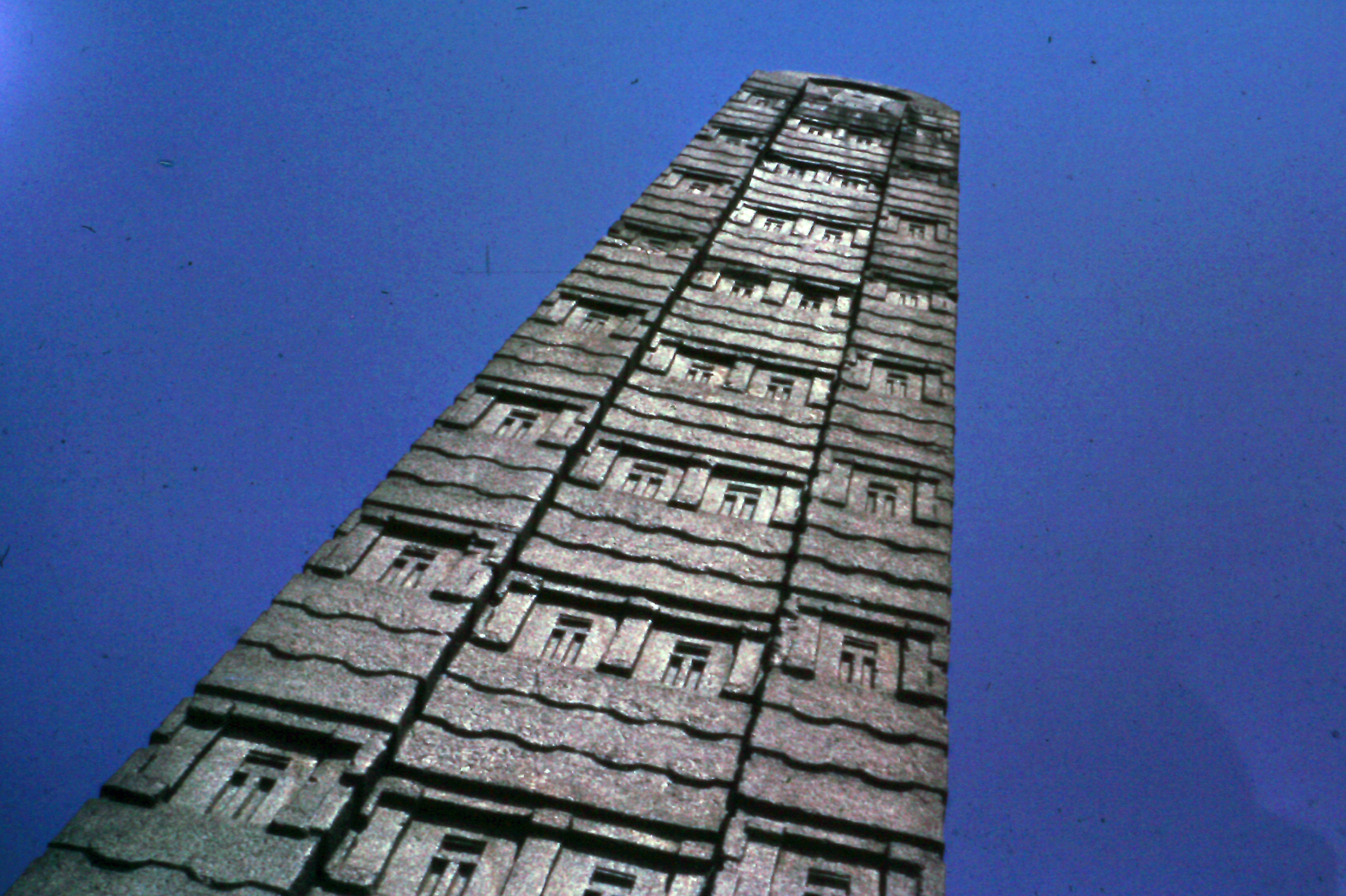 The largest obelisk in Axum, picture taken 1960